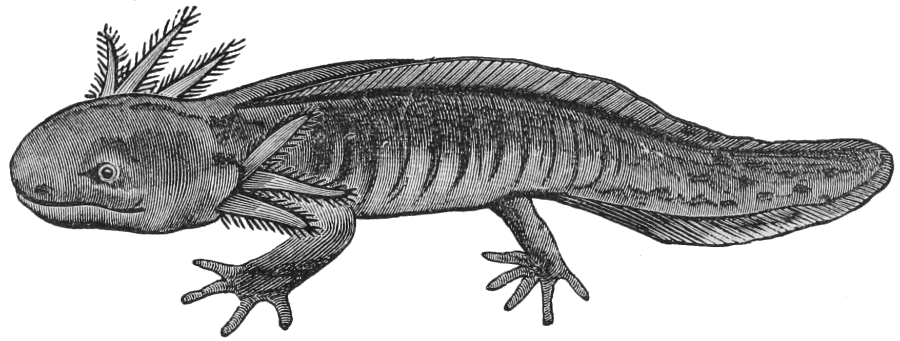 The Axolotl - Siredon pisciforme